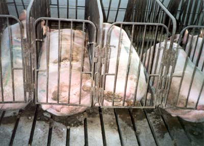 "Female pigs used for breeding (called 'breeding sows' by industry) are confined most of their lives in 'gestation crates' which are so small that they cannot even turn around. The pigs' basic needs are denied, and they experience severe physical and psychological disorders."